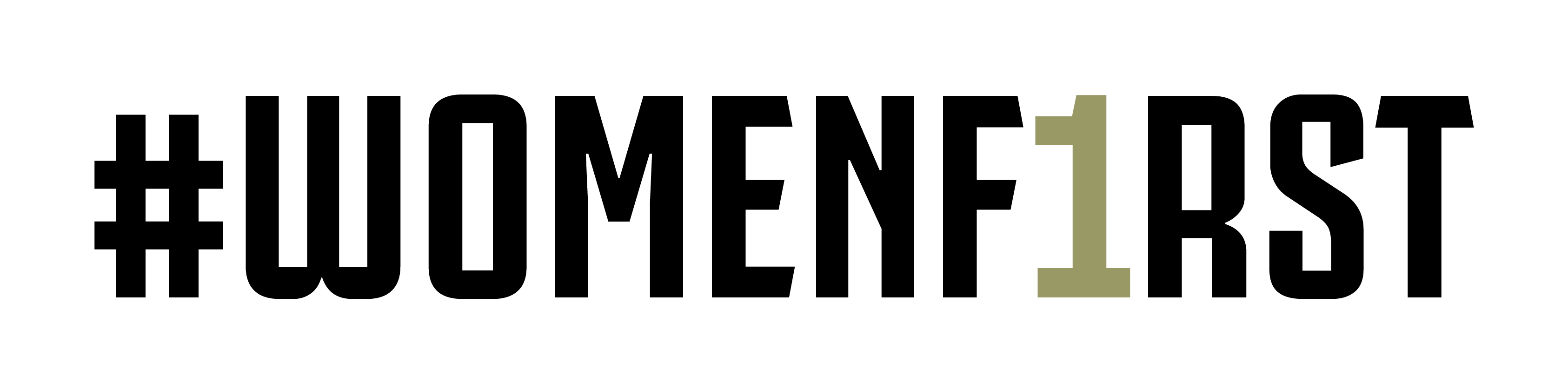 Hashtag #WOMENF1RST for the 1st Italian Women's Serie A title won by Juventus F.C. Women in the 2017–18 season.